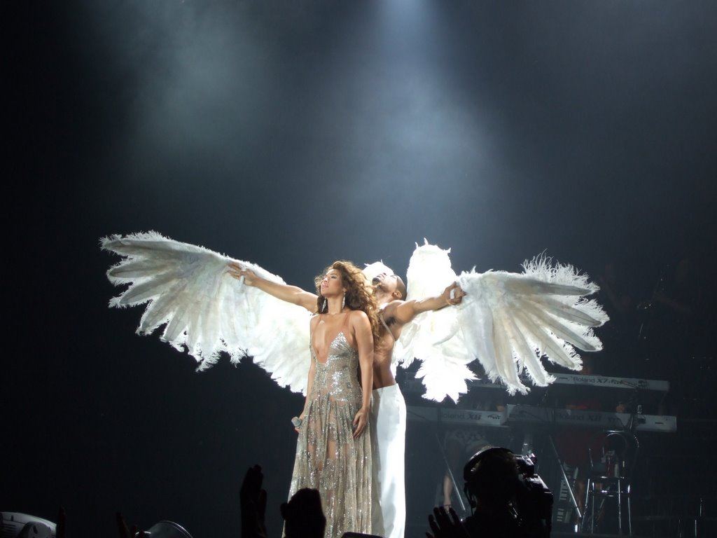 Beyoncé on tour The Beyoncé Experience in 2007.